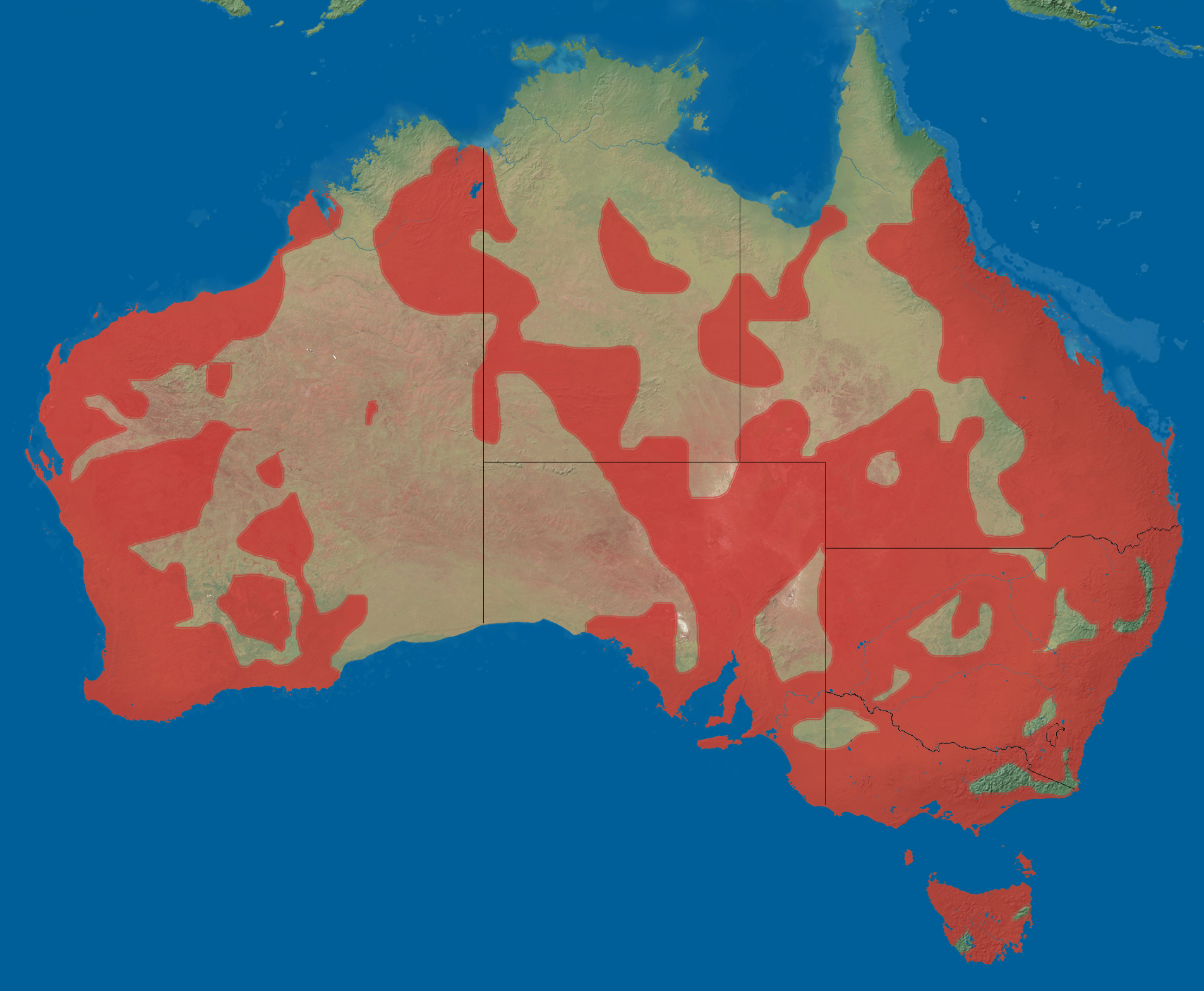 The Distribution of the Black Swan